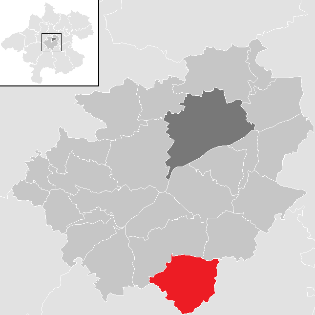 District Wels-Land